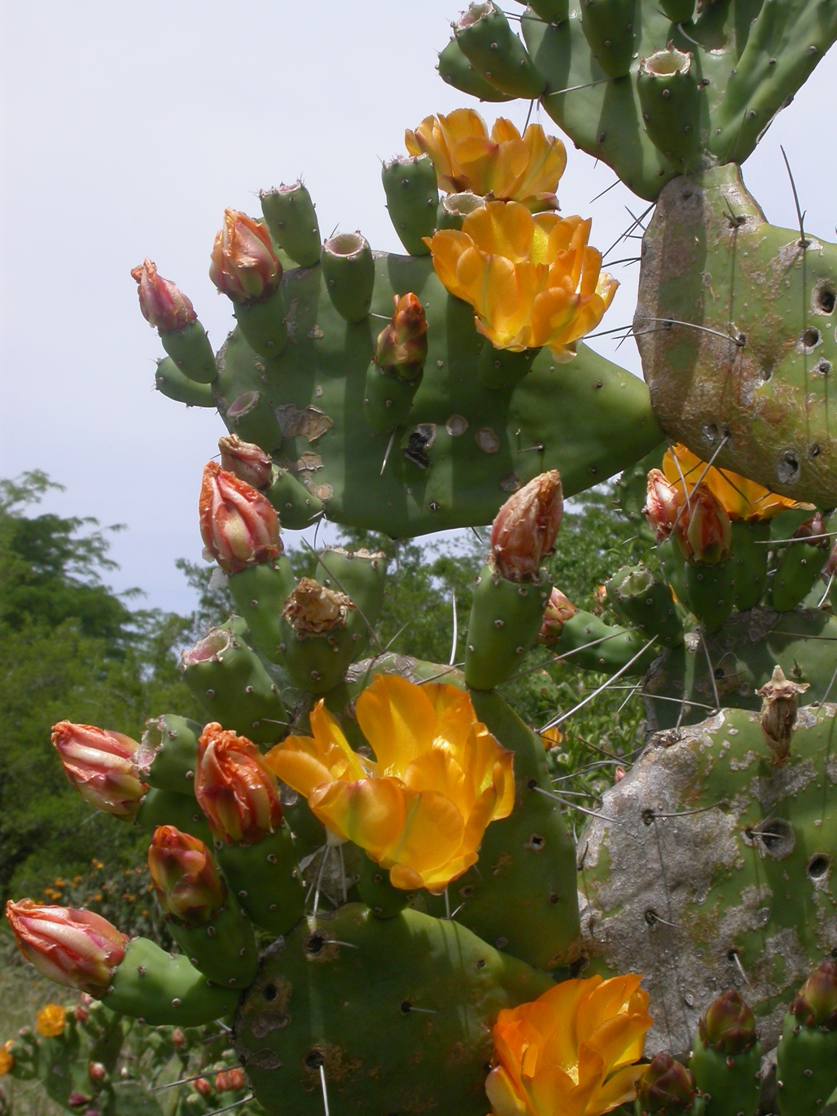 Opuntia elata (pads and flowers). Parque Ecológico Municipal, La Plata, Buenos Aires province, Argentina.